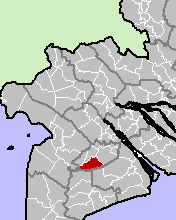 Can Tho city, Vietnam.